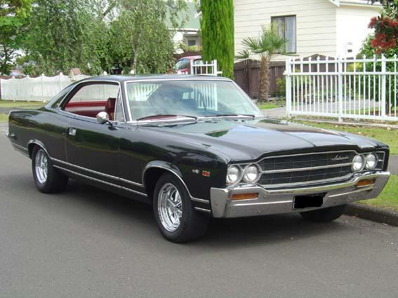 1969 Ambassador DPL two-door hardtop (pillarless coupe) by American Motors Corporation (AMC). This example is a New Zealand model with RHD.